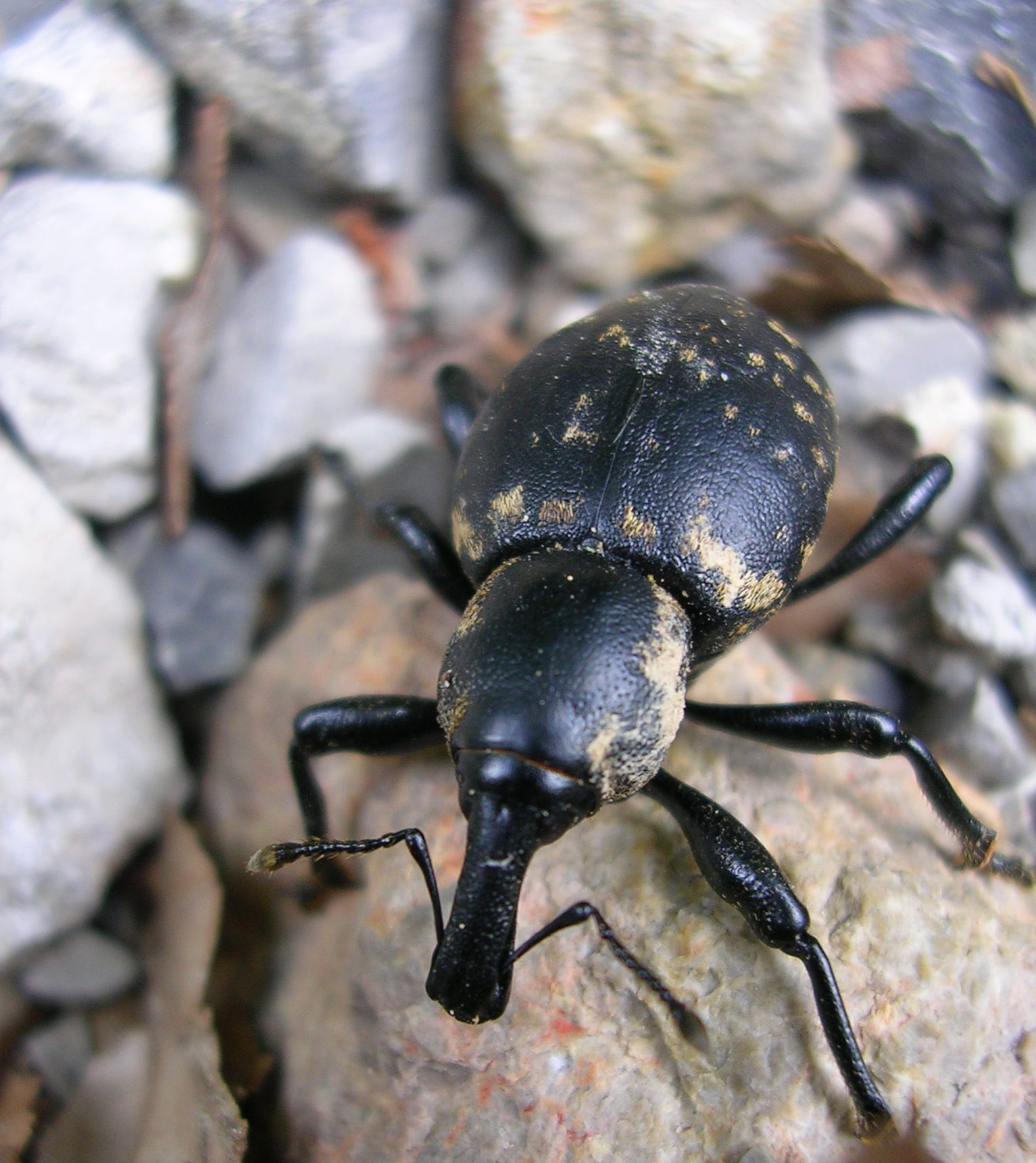 weevil (Liparus glabrirostris Küster, 1849 ), from Curculionidae family in Dovžanova soteska